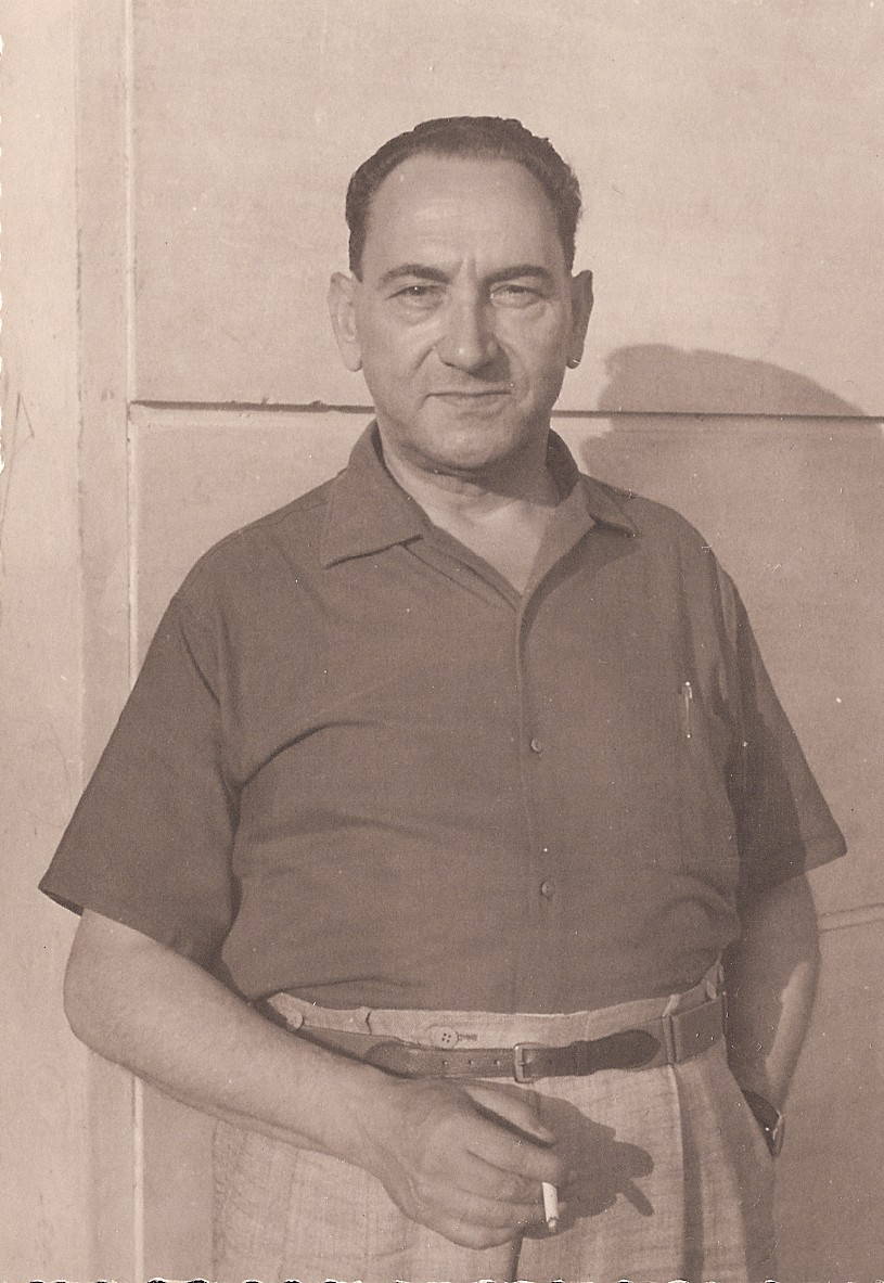 Gaetano Bonanni about 1970